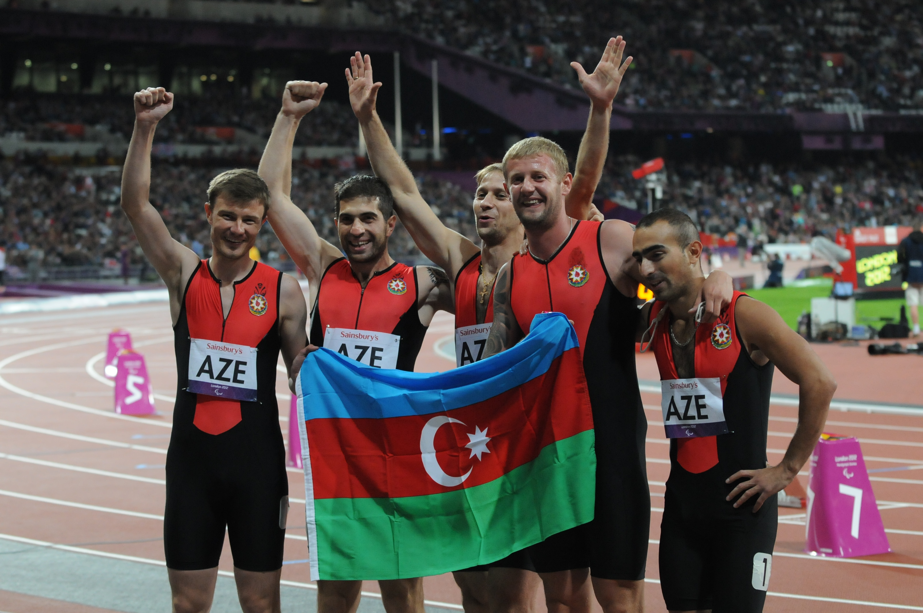 Azerbaijani athletics team at the 2012 Summer Paralympics